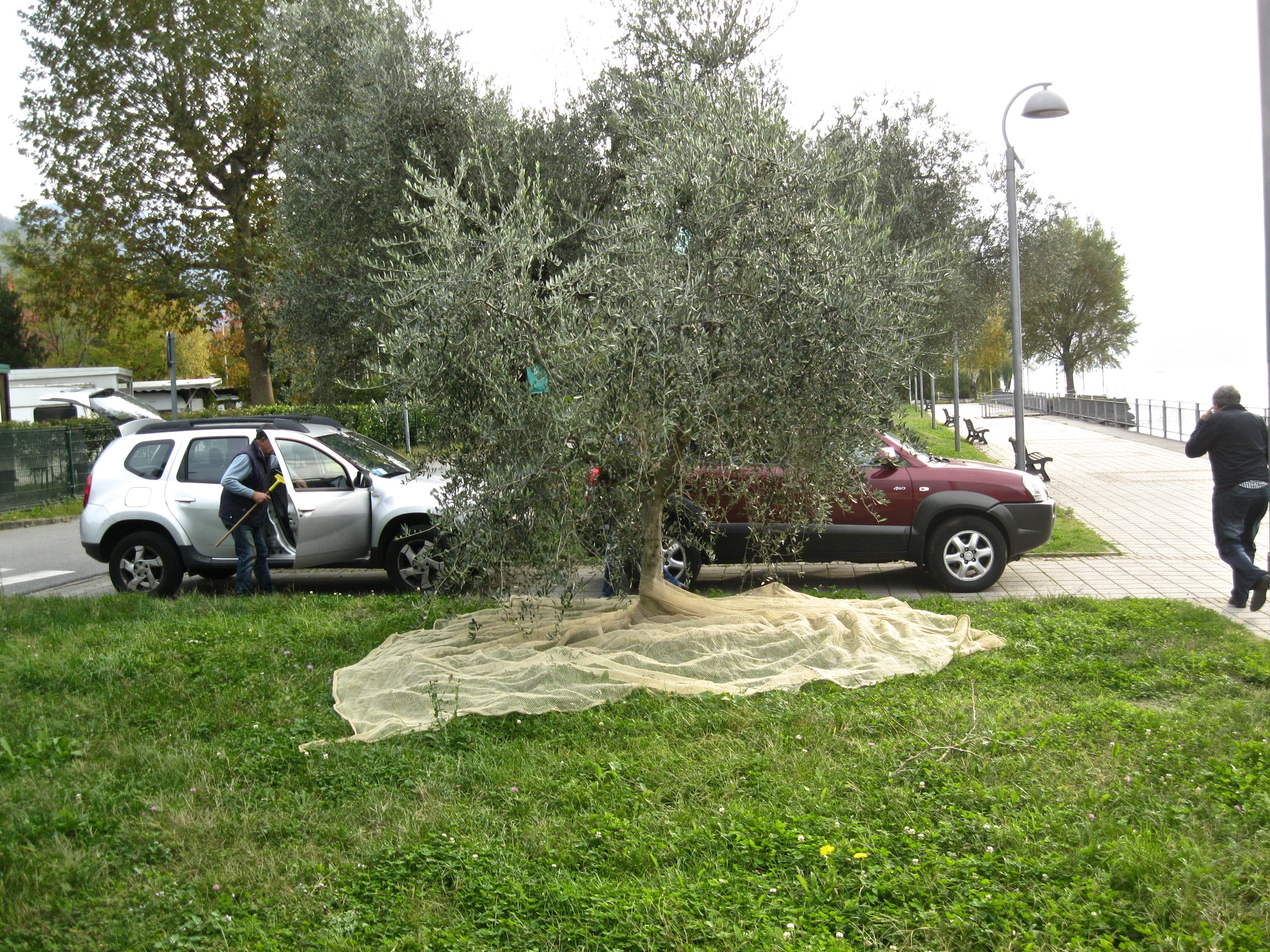 olive plant in Dervio, small village on the bank of the lake Como, Lombardy, Italy